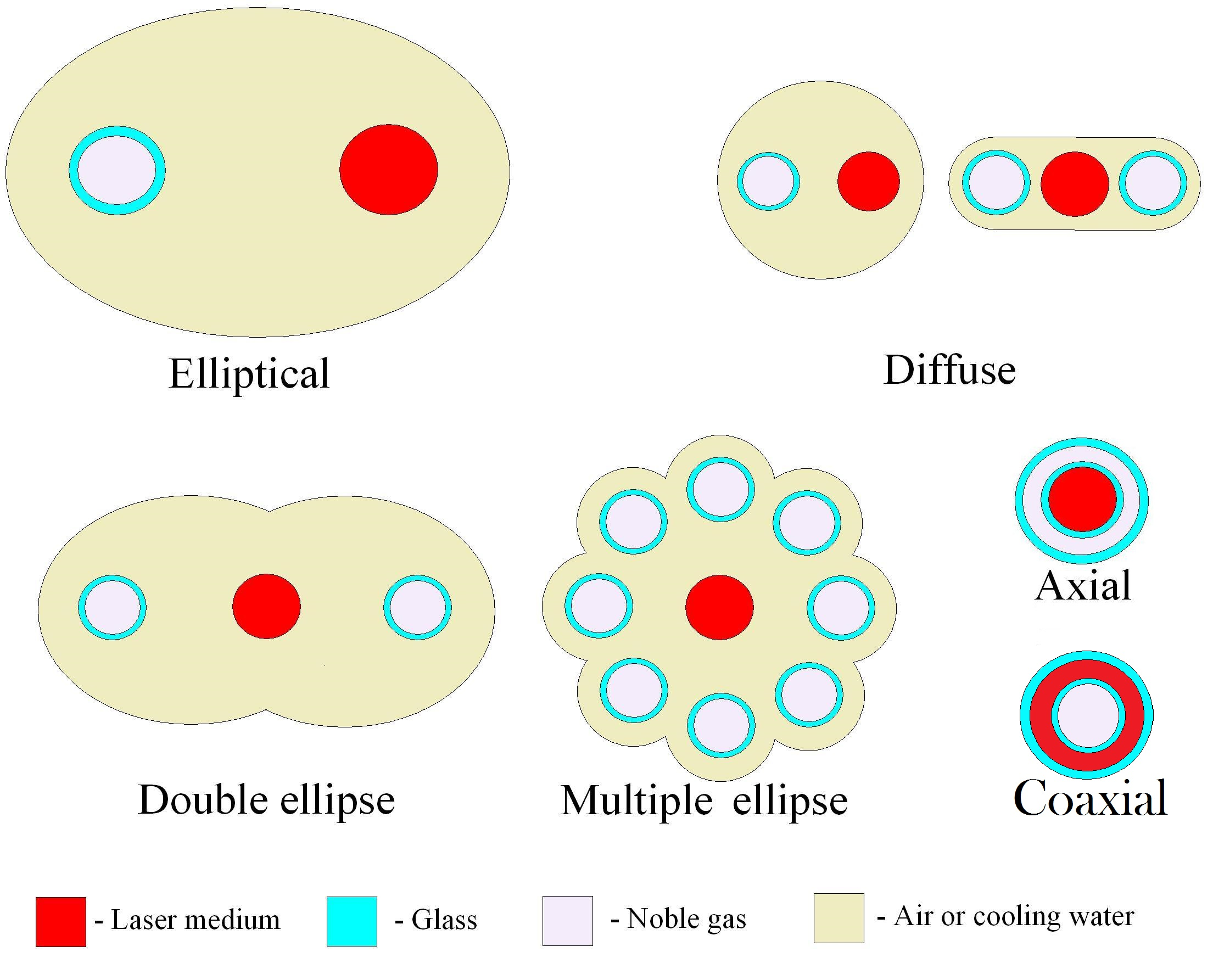 Some of the more basic cross sections used for laser pumping cavities